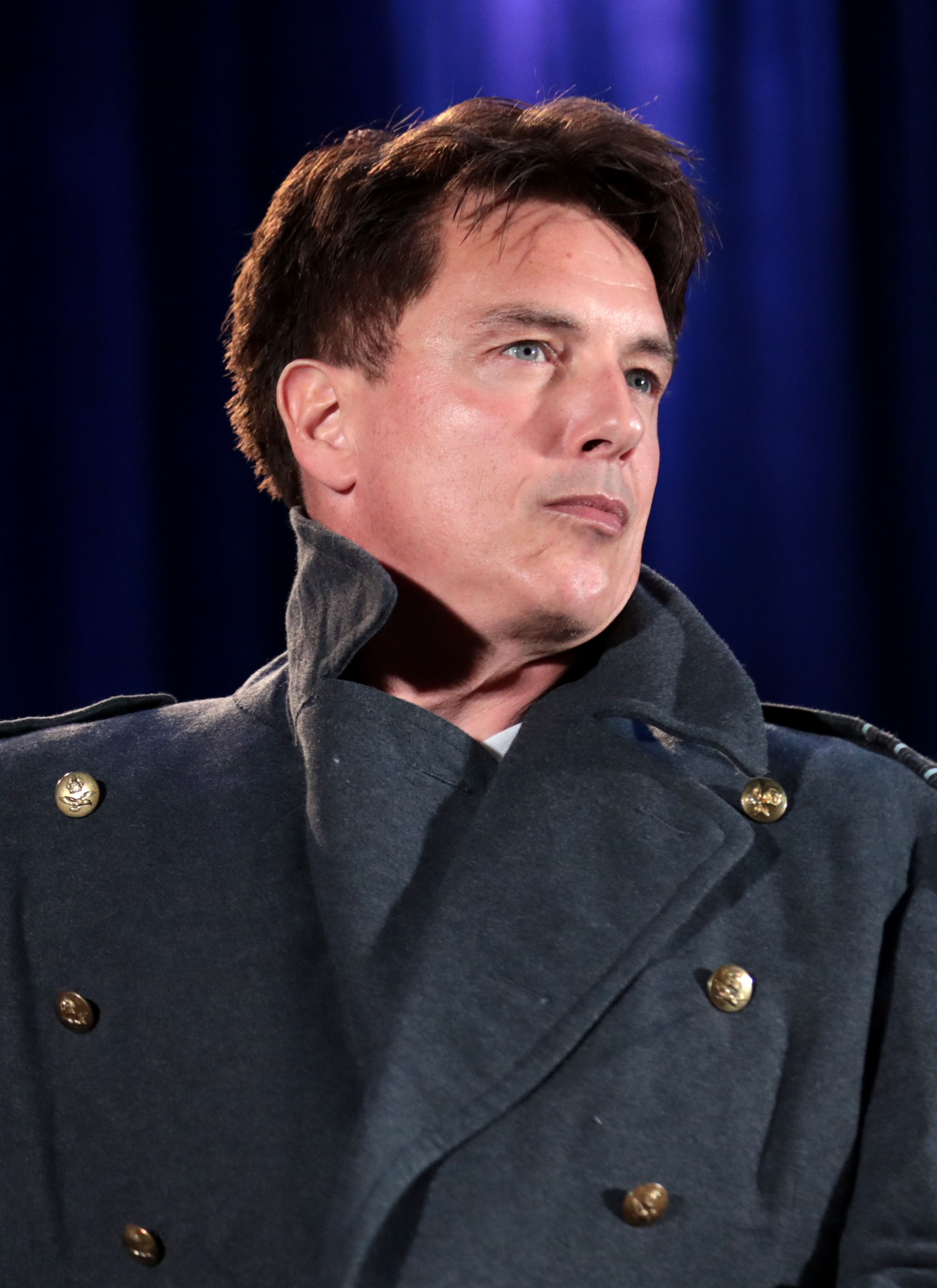 John Barrowman speaking at the 2019 Phoenix Fan Fusion in Phoenix, Arizona.